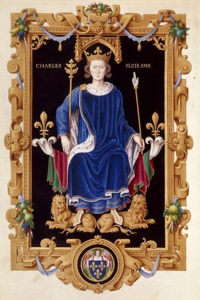 Charles the Mad. From Recueil des rois de France. (FR 2848, f� 150)., by Jean de Tillet (16th century). In the Bibliothèque Nationale de France.